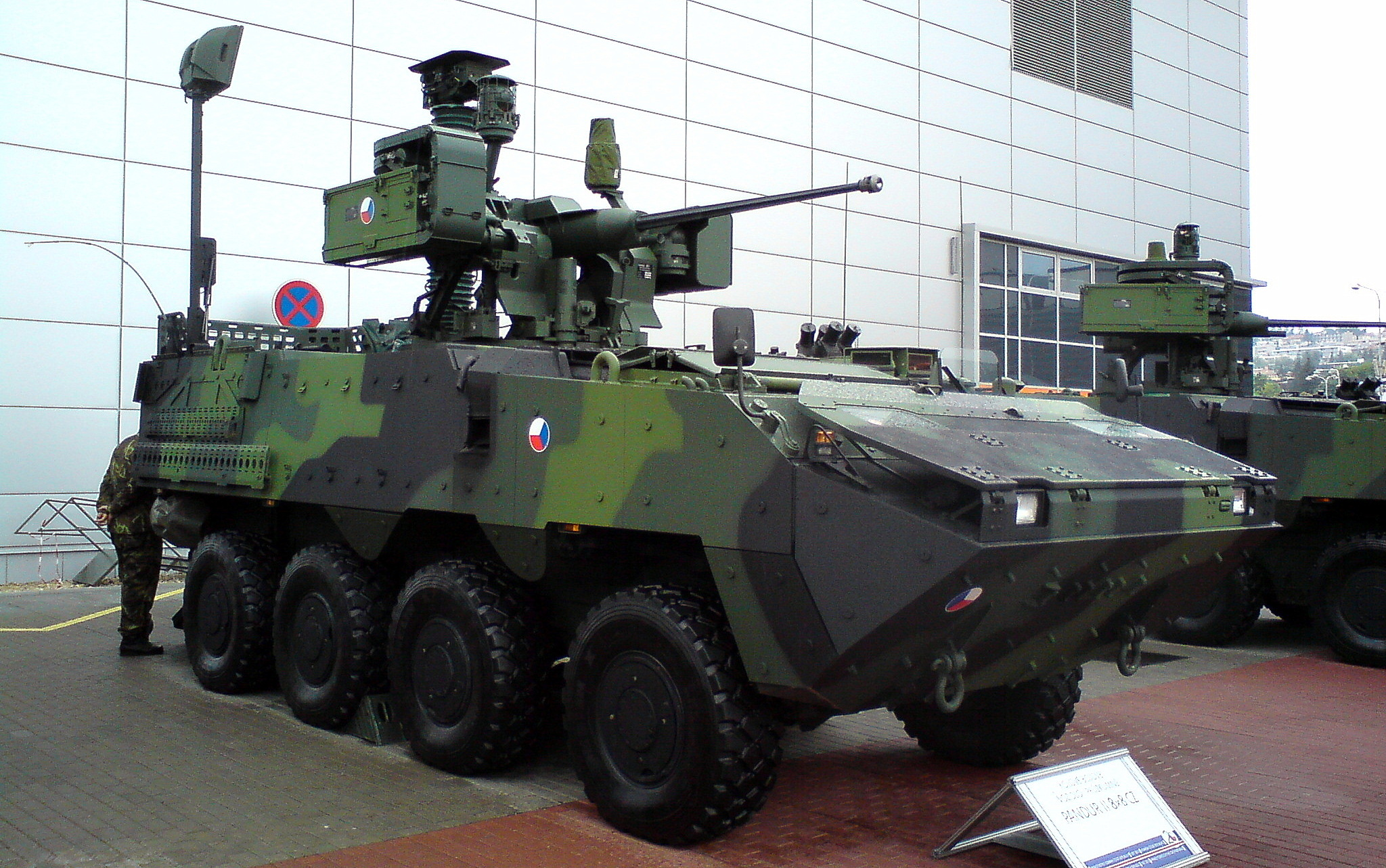 Czech Pandur II APC, reconnaissance variant KBV-PZLOK.